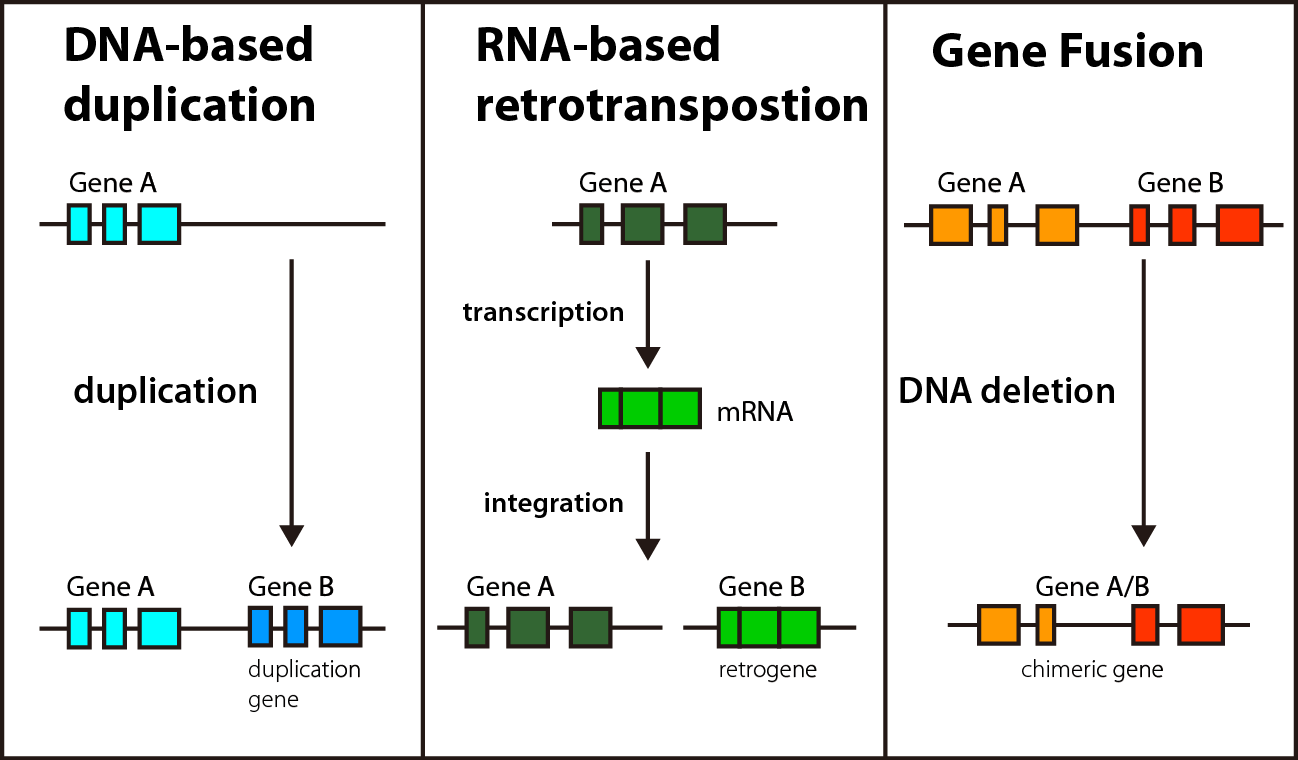 Mechanisms of gene creation